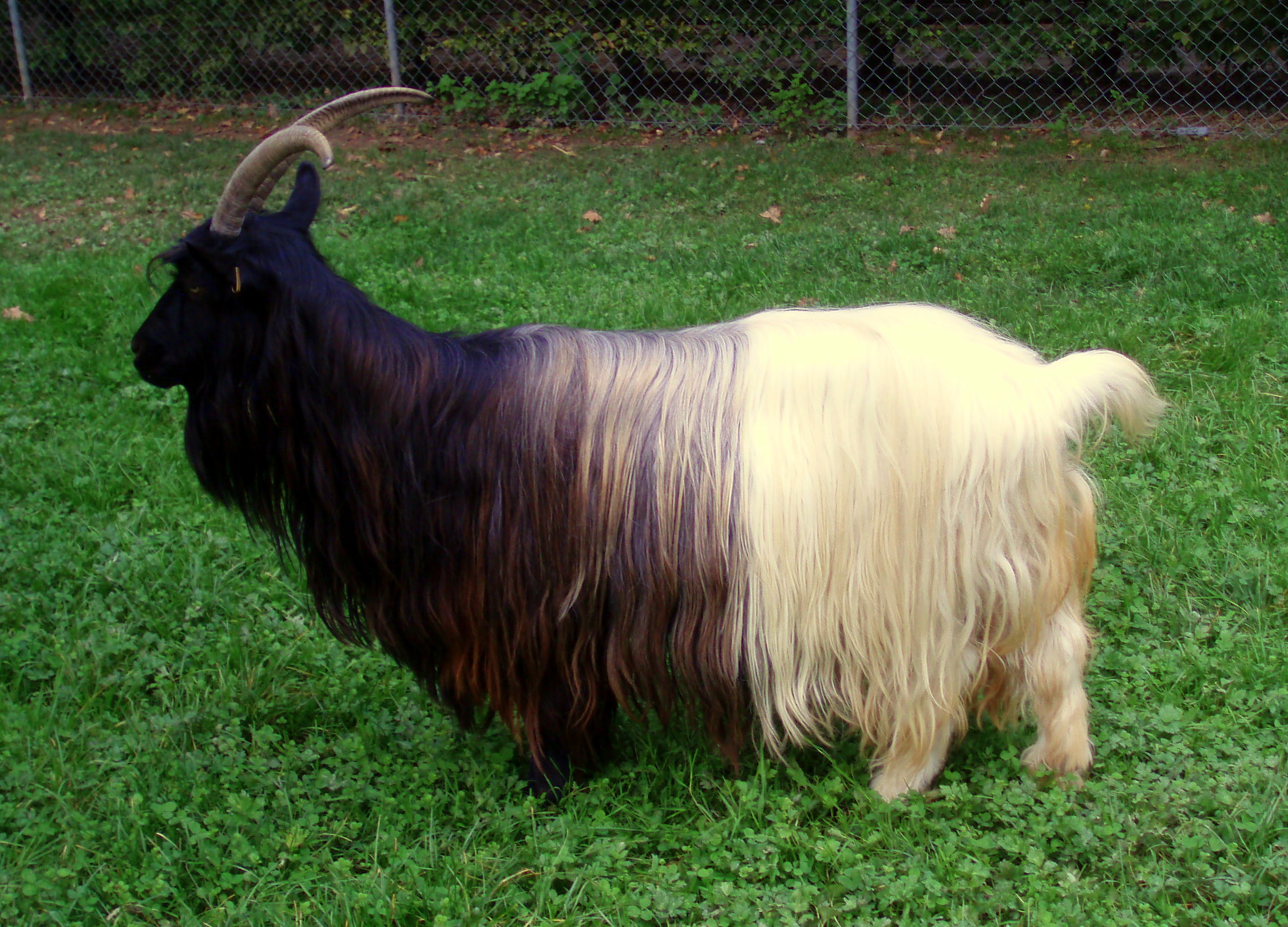 A Valais Blackneck goat. Taken at the Bois de la Batie, in Geneva, Switzerland.